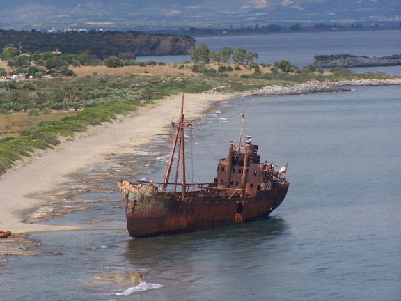 Wreck of the 965 GRT coaster MV Cornelia on Valtaki beach, near Gytheio, Greece. Frederikshavns Vaerft & Flydedok in Denmark built her in 1950, launching her as Klintholm for DFDS. In 1966 she was bought by Greek owners in Piraeus who renamed her Dimitrios. She changed owners in 1974 and 1976, keeping the same name. In 1979 Anepap Ltd of Piraeus bought her and renamed her Cornelia. Anepap Ltd abandoned her in Gytheio, where in about 1980 the harbour authority towed her out of port and anchored her offshore. On 23 December 1981 she ran aground after dragging her anchor.